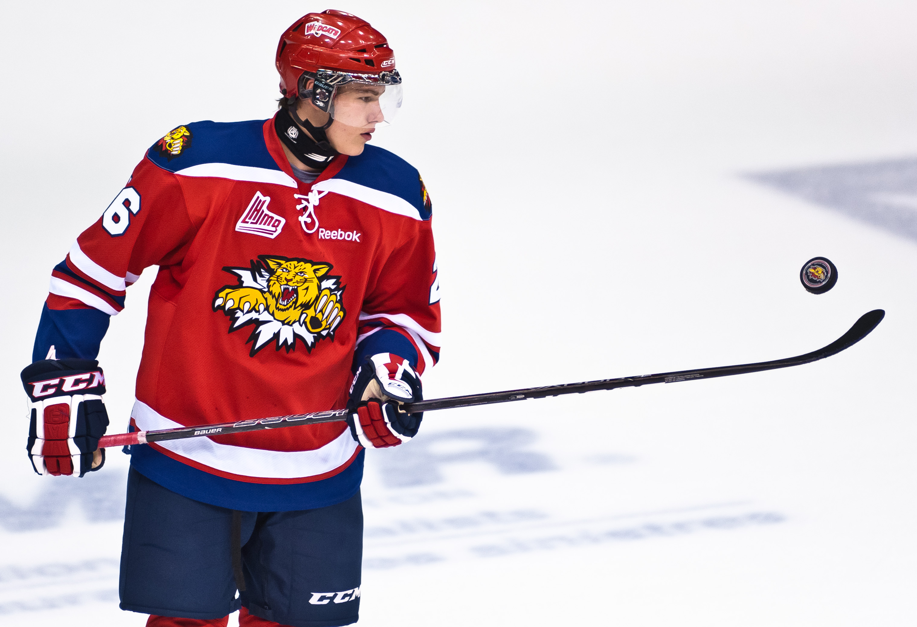 QMJHL hockey player Dmitrij Jaskin who currently plays for the Moncton Wildcats